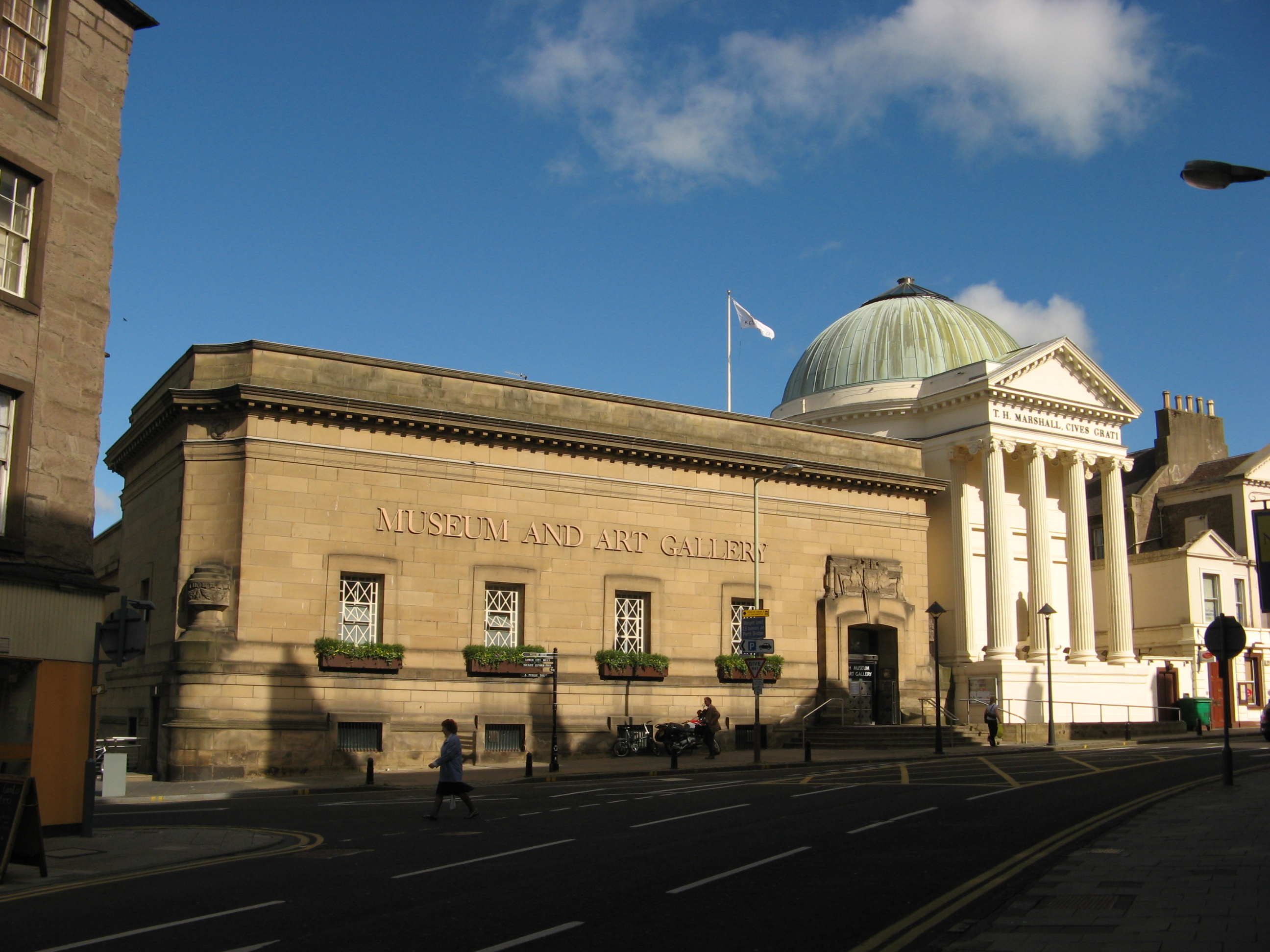 Perth Museum and Art Gallery, Perth, Scotland